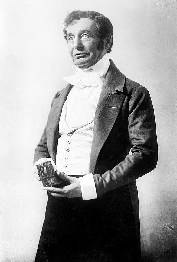 "Sir Chas. Wyndham as 'Capt. Dudley Smooth'" An undated image, from the Bain News Service, of Charles Wyndham, an actor.